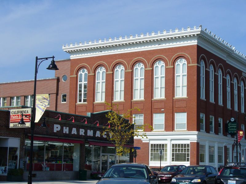 Main Street